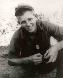 United States Navy Hospital Corpsman Third Class Robert R. Ingram, a Medal of Honor recipient for his actions in the Vietnam War